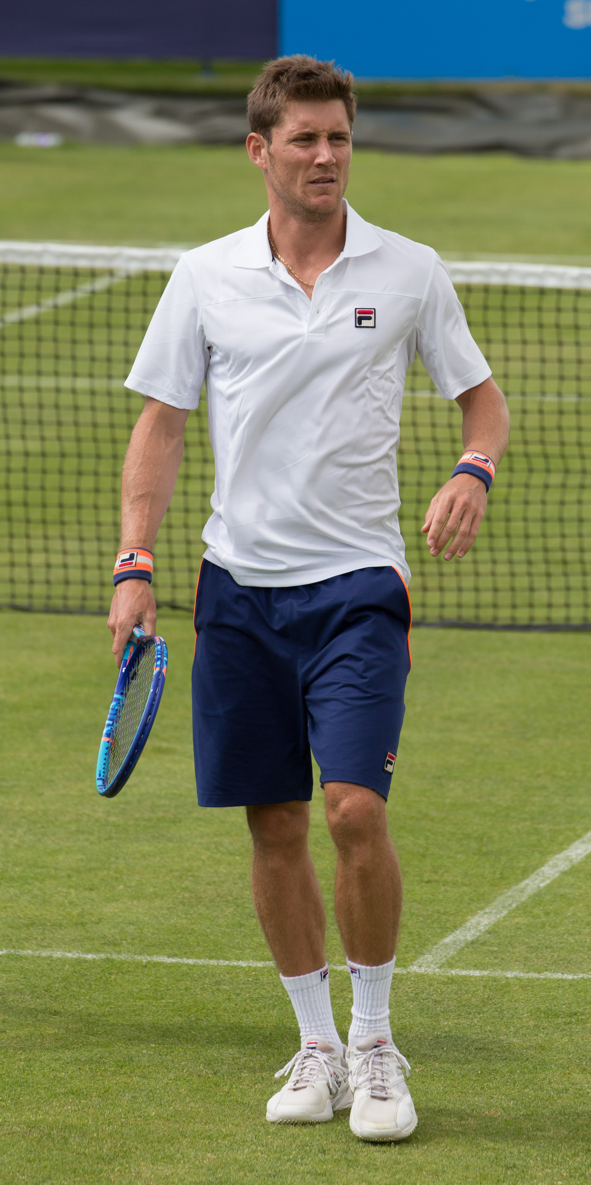 Matthew Ebden of Australia playing doubles with James Ward of Great Britain at the Aegon Surbiton Trophy in Surbiton, London.